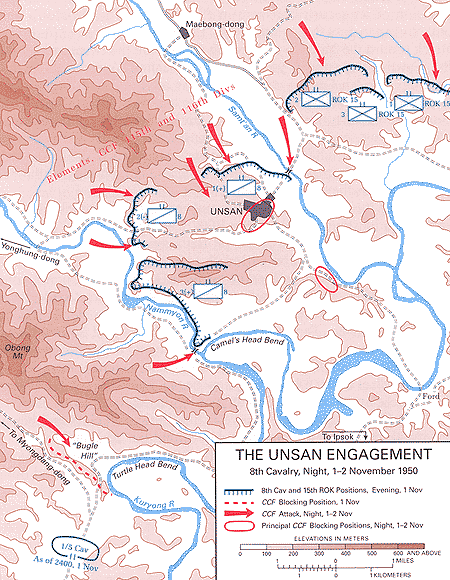 Map of Unsan Engagment